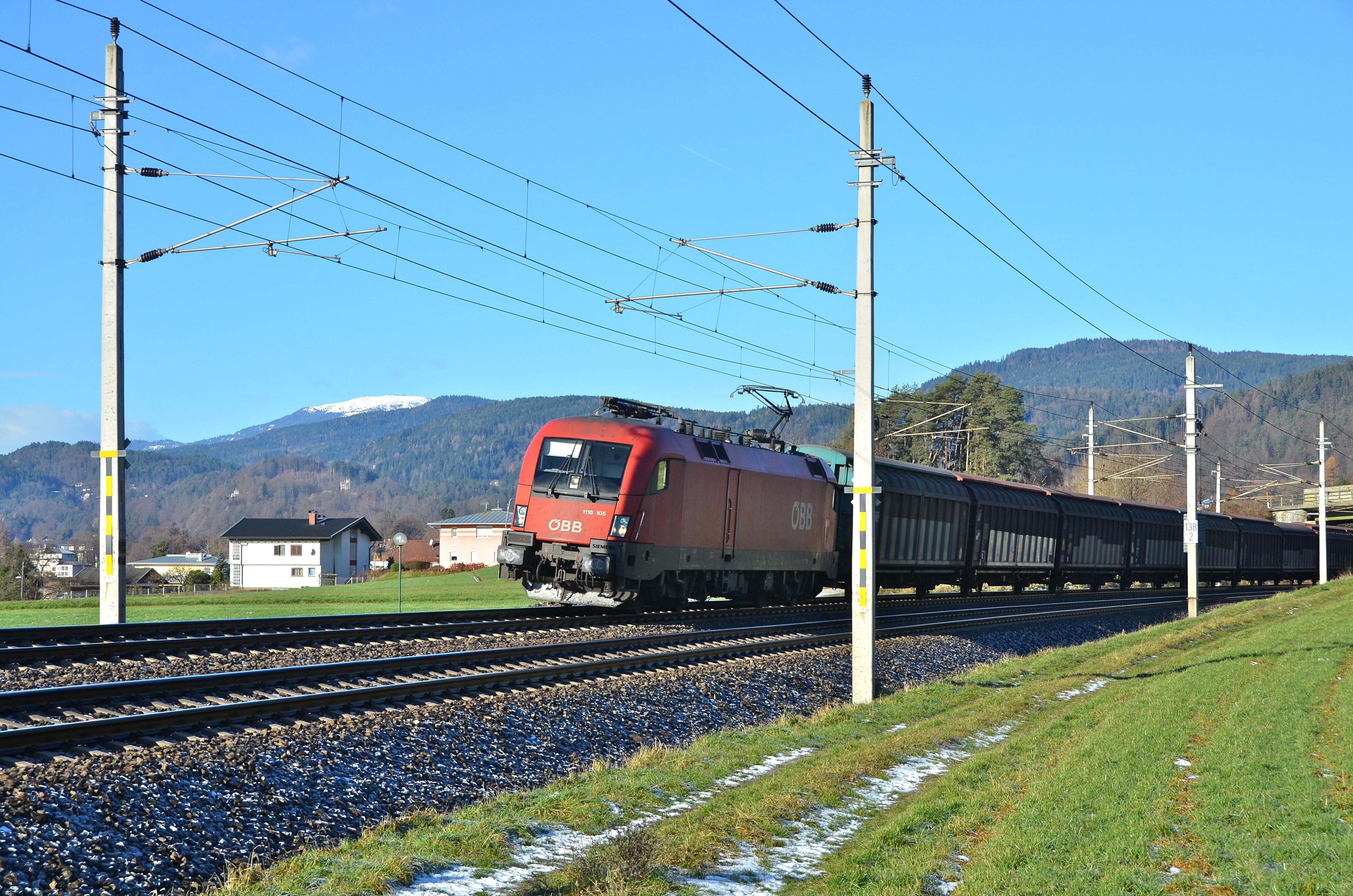 Freight train pulled by Taurus locomotive OEBB 1116 on the railway line Drautalbahn II at Goritschach, municipality Poertschach on the Lake Woerth, district Klagenfurt Land, Carinthia, Austria, EU